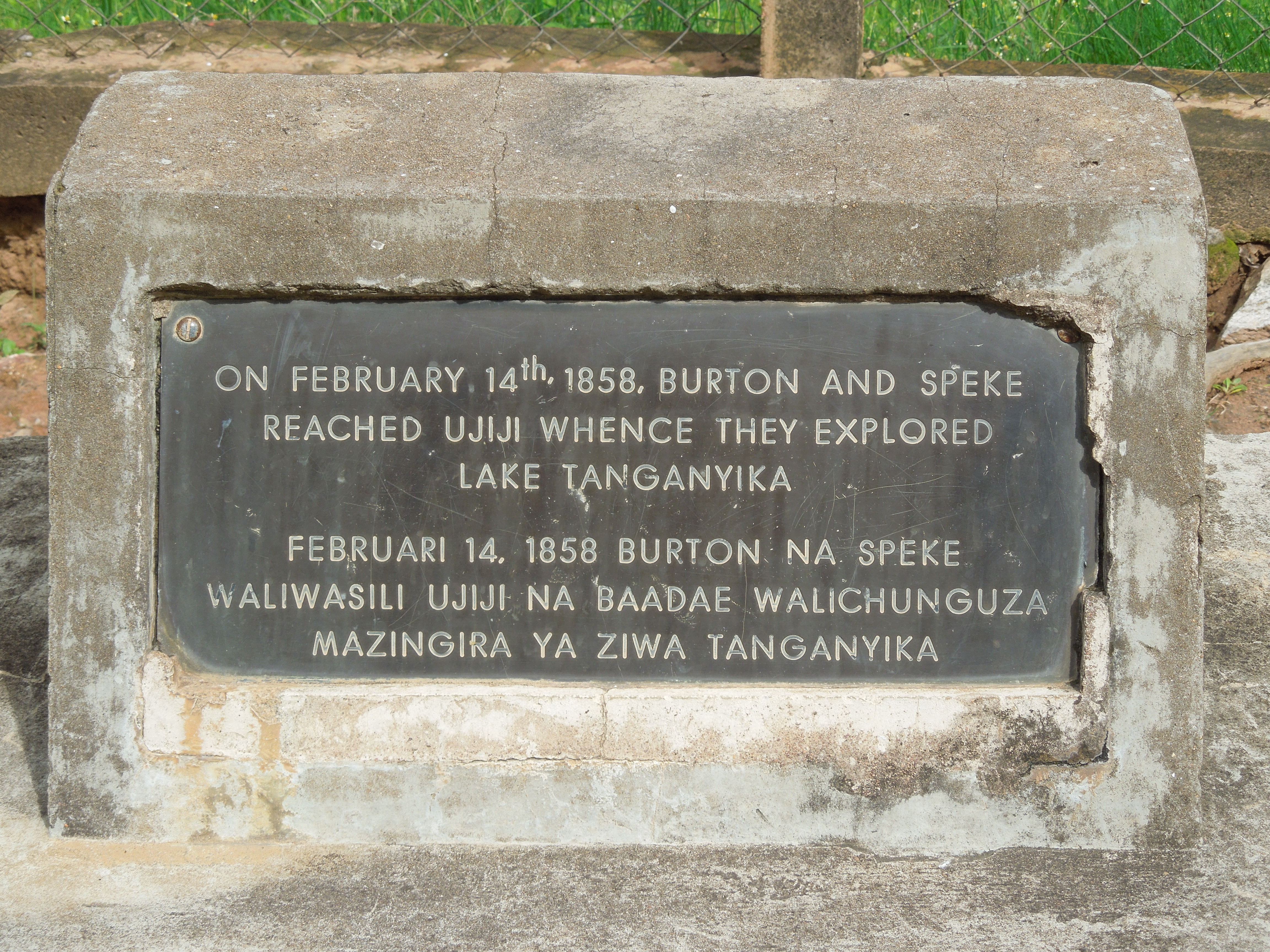 Monument to the two African explorer Speke and Burton in Tanzania